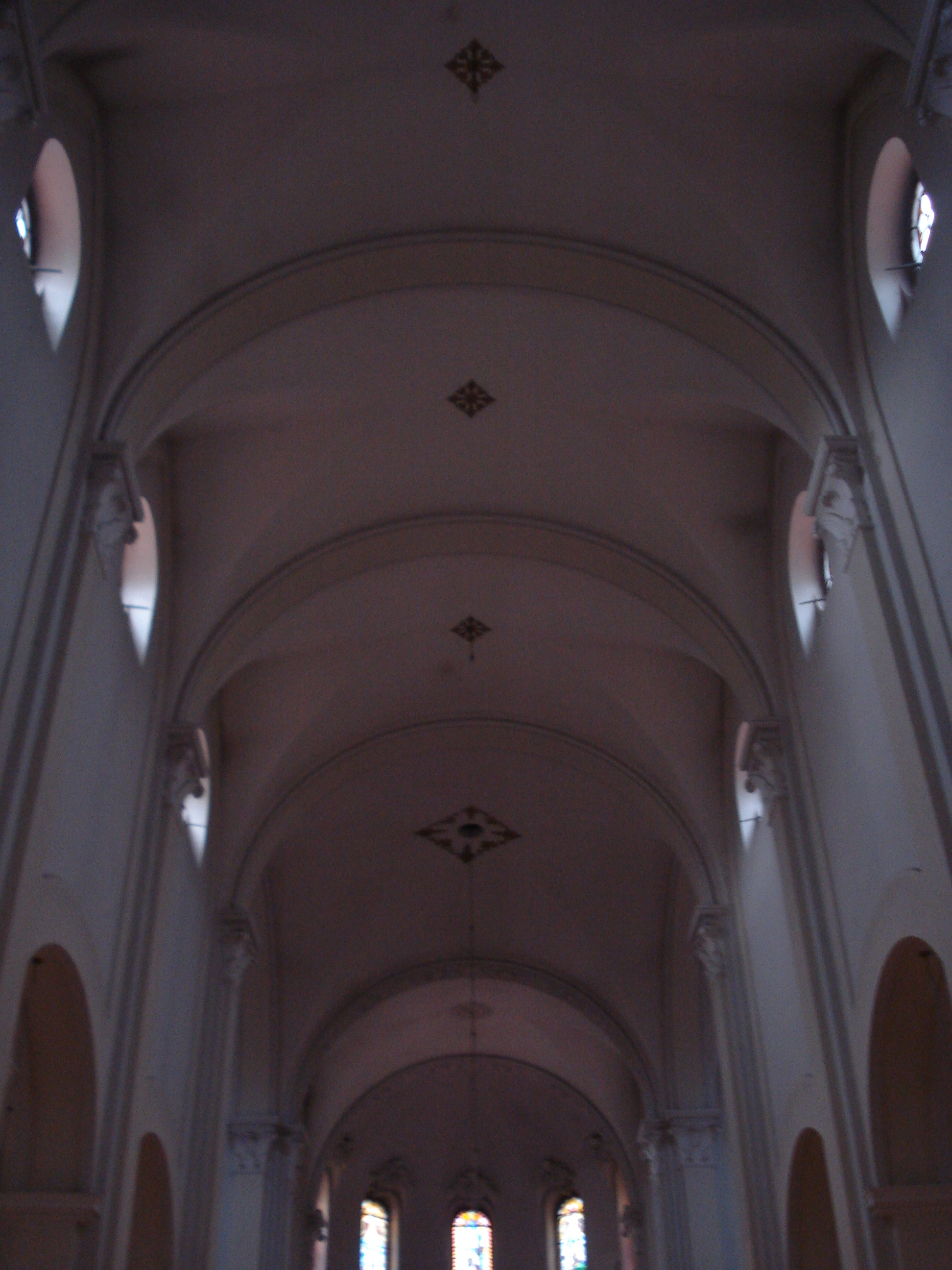 Church of the Immaculate Conception of Blessed Virgin Mary in Vilnius (Sėlių g. 17). Main nave